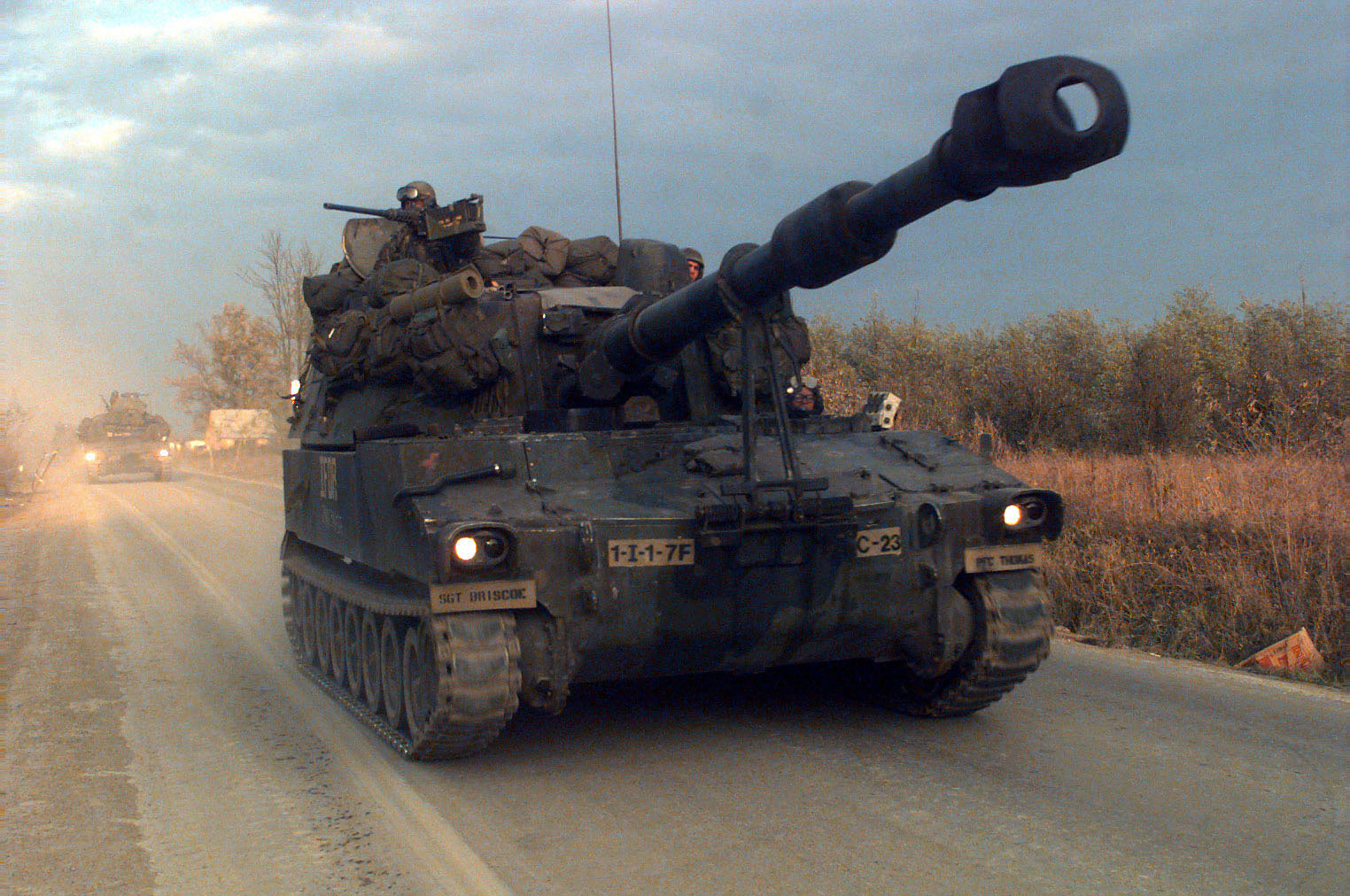 A M109 A6 Paladin Self-propelled Howitzer of the US Army